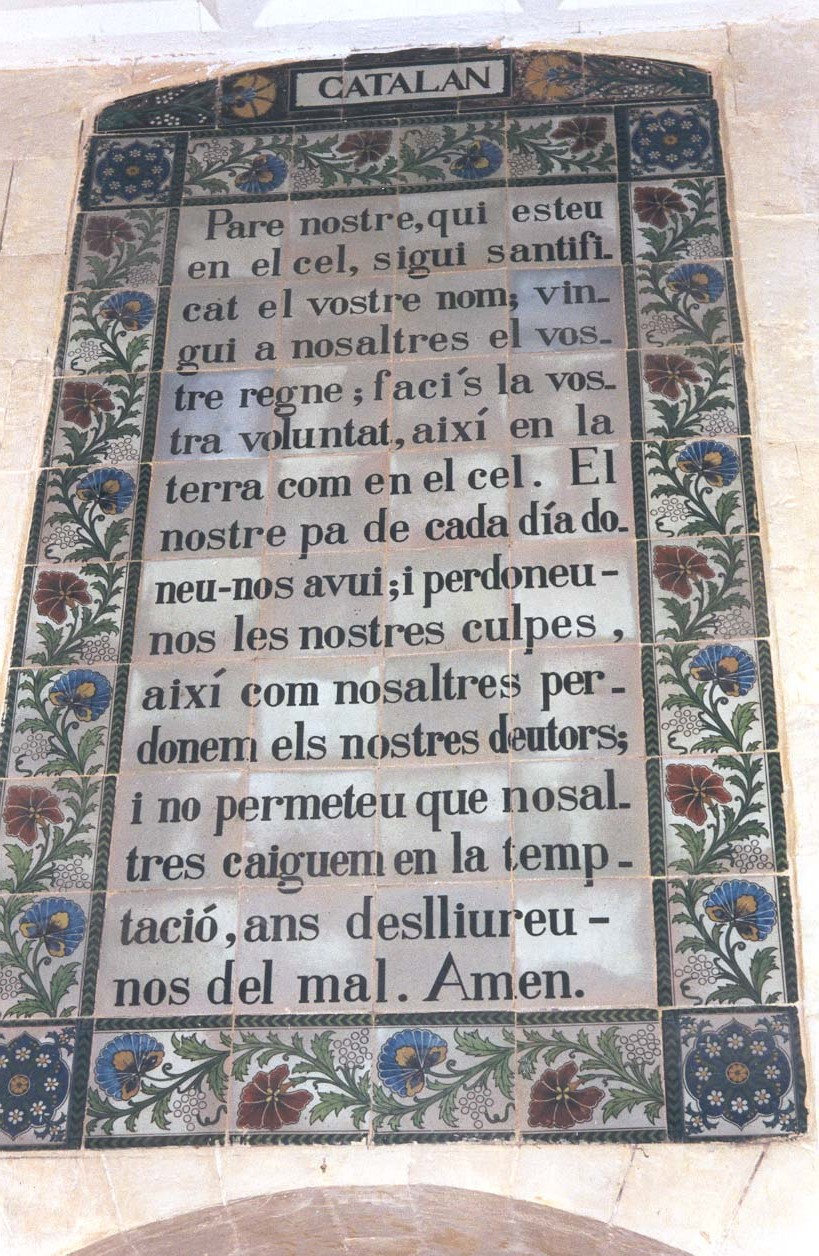 Lord's Prayer in catalan in the Church of the Pater Noster of Jerusalem